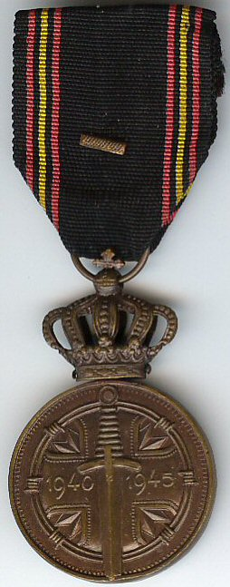 Prisonner of War Medal 1940-1945 (Belgium)